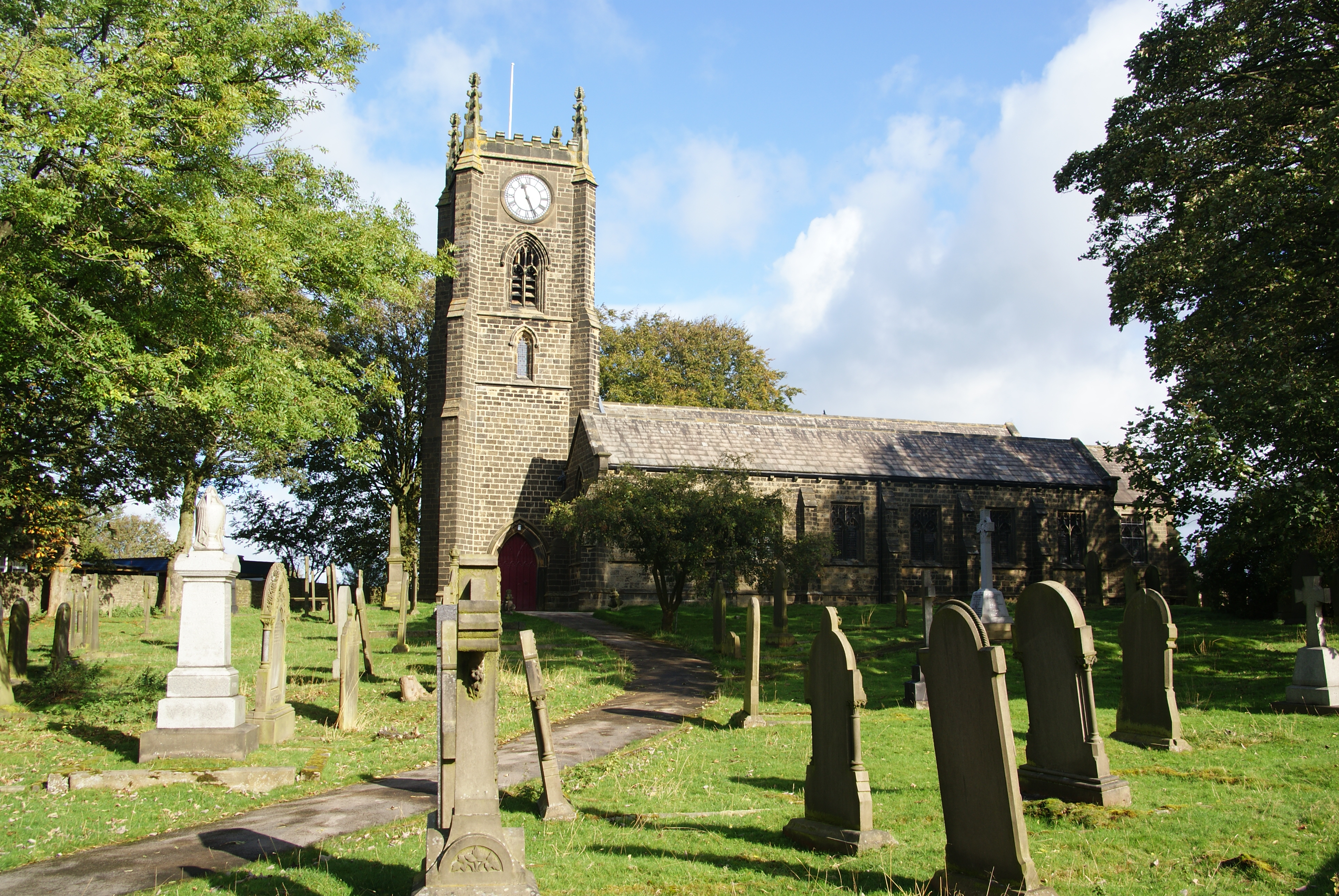 Photograph of Holy Trinity Church, Cowling